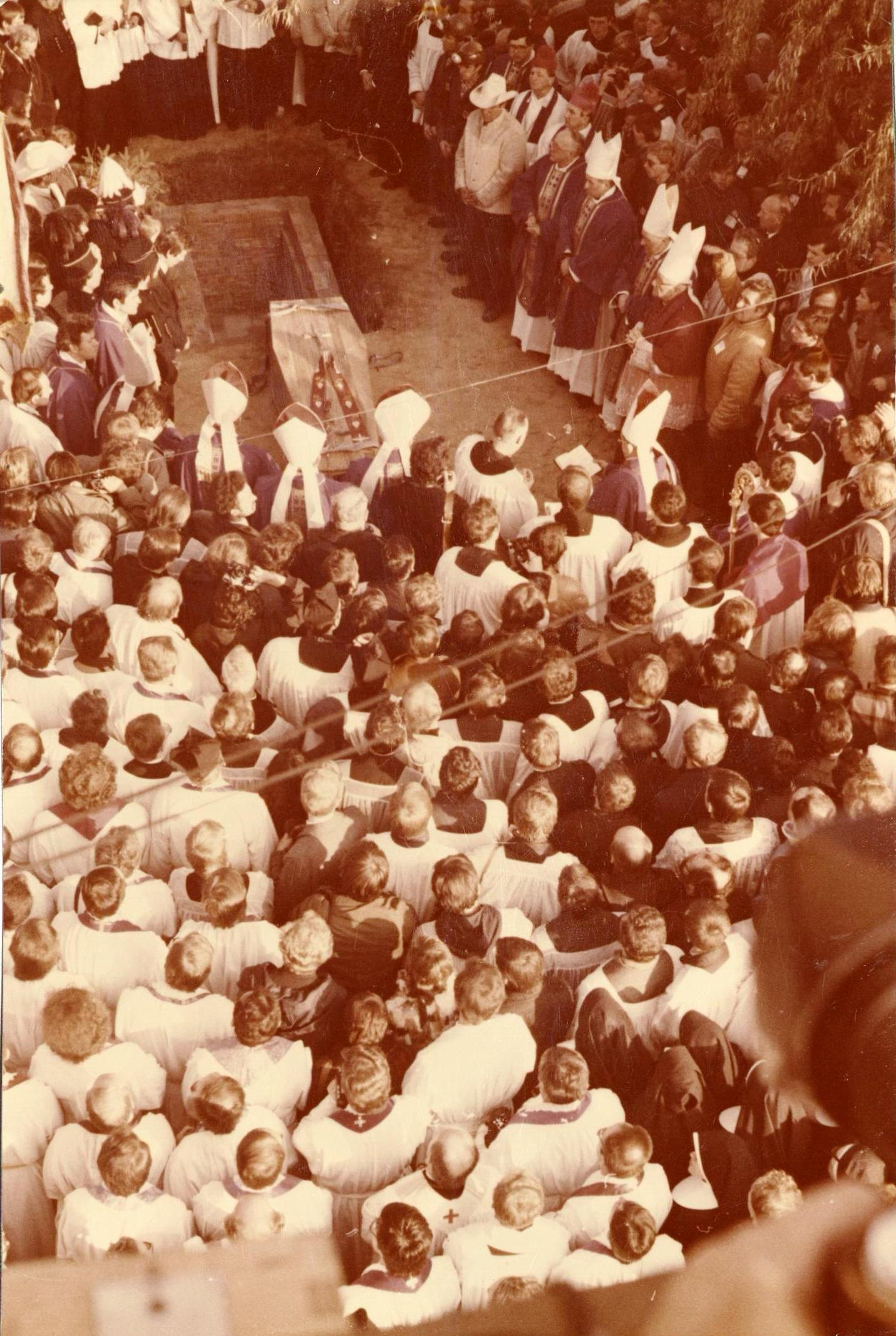 Funeral of Jerzy Popiełuszko at Saint Stanislaus Kostka Church in Warsaw